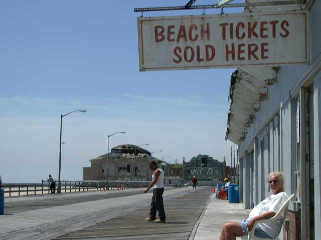 Asbury Park boardwalk in July 2002 © 2002 Matthew Trump